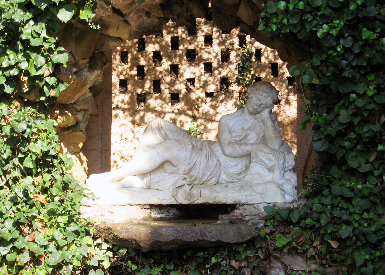 Statue of the nymph Egeria in the Parc del Laberint d’Horta in Barcelona, Catalonia (Spain).